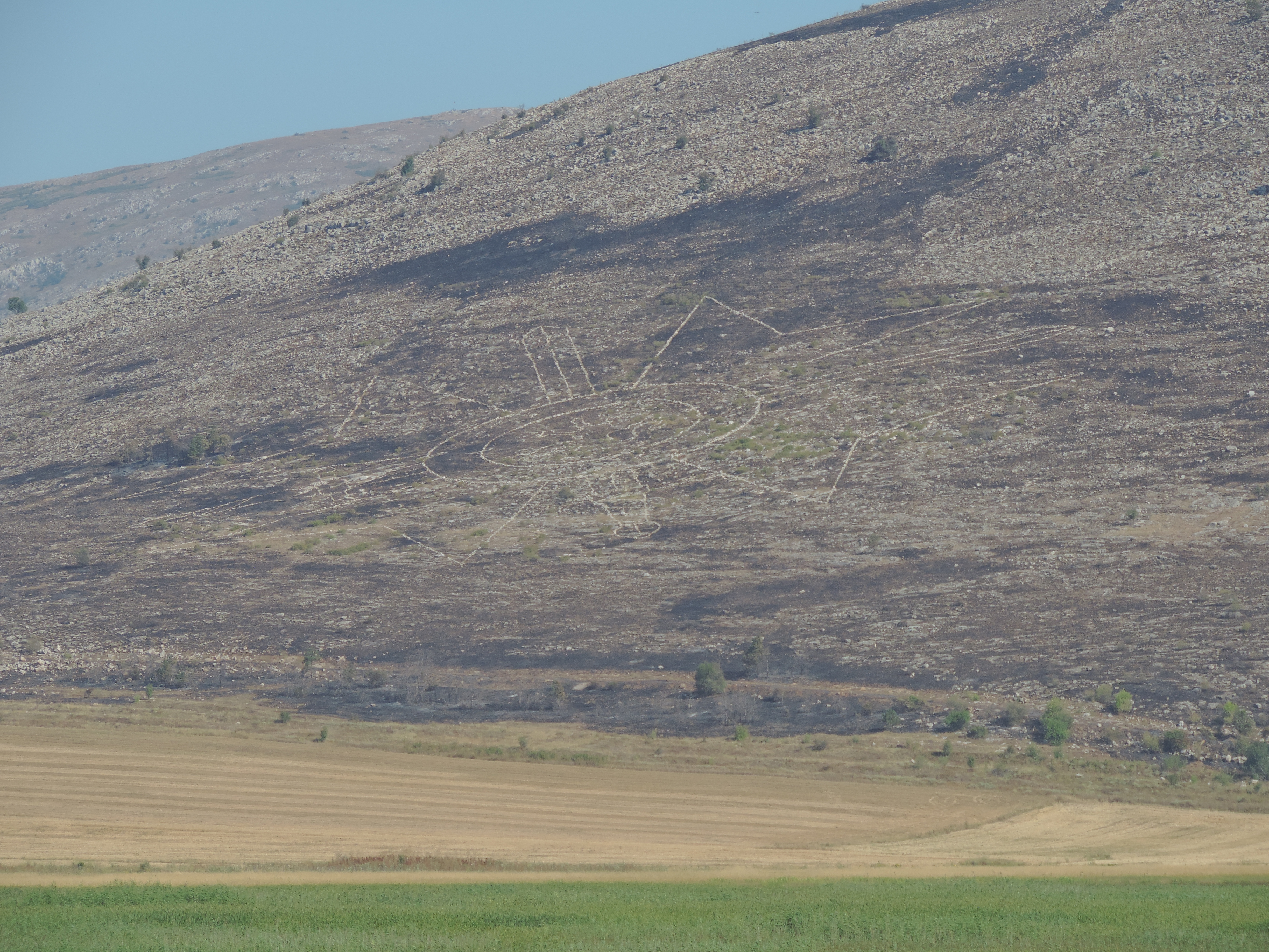 Aldomirovtsi marsh